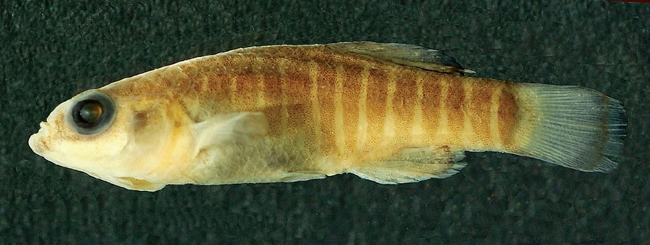 Aphanius mesopotamicus, paratype, male, 21.7 mm SL (CMNFI 1979-0360B).